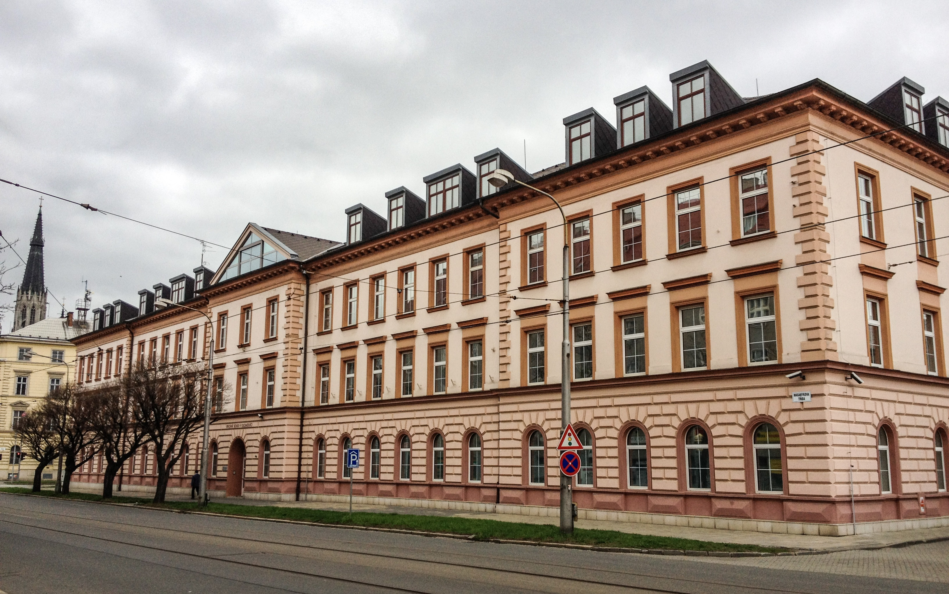 Building of High court in Olomouc